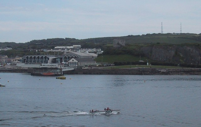 Mountbatten Tower on Mountbatten Point